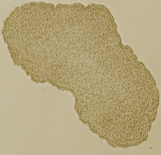 Trichoplax adhaerens from Australia in light microscopy